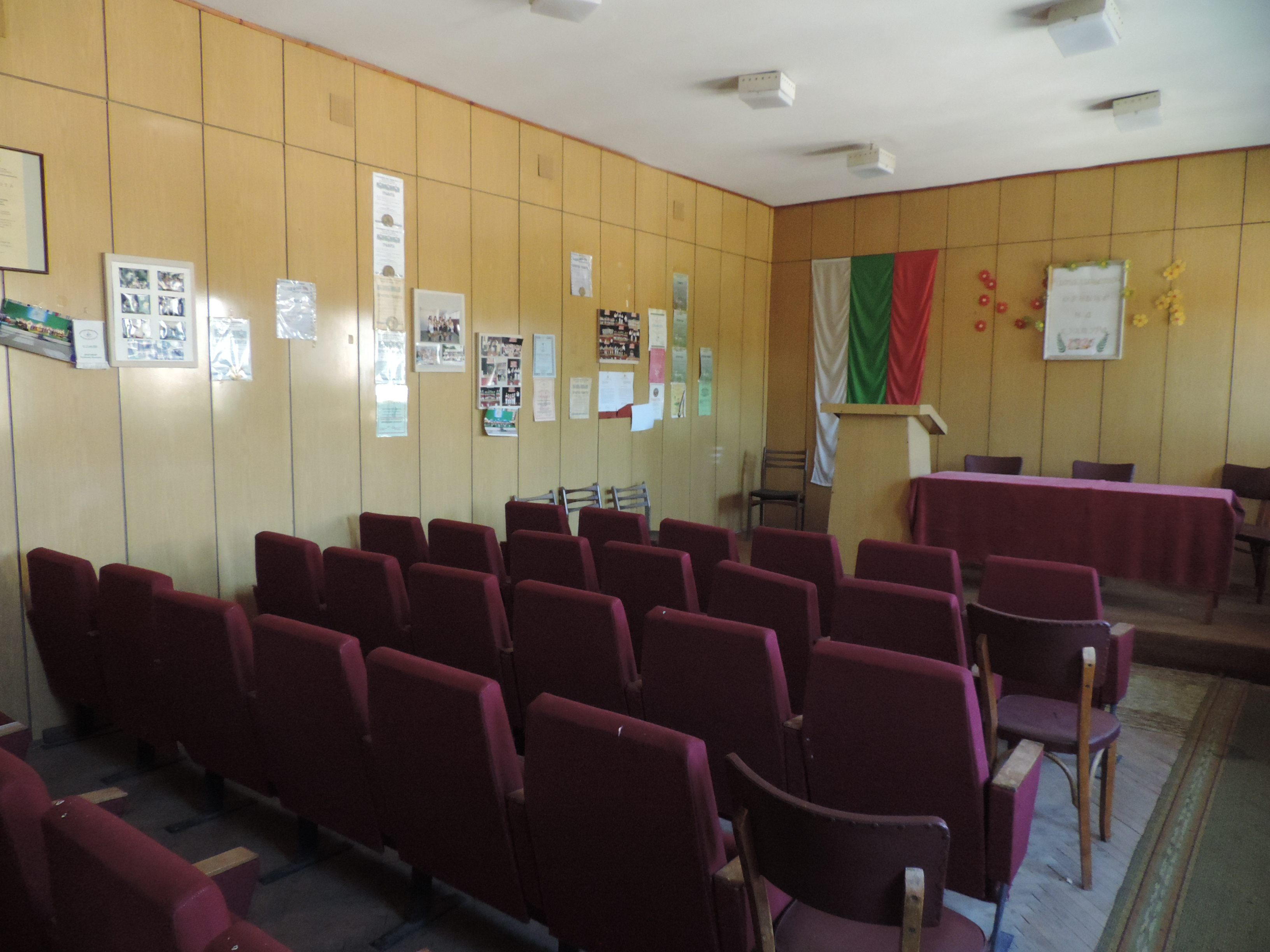 Exhibit of the "Dragoman 1925" Community Centre in Dragoman, Bulgaria